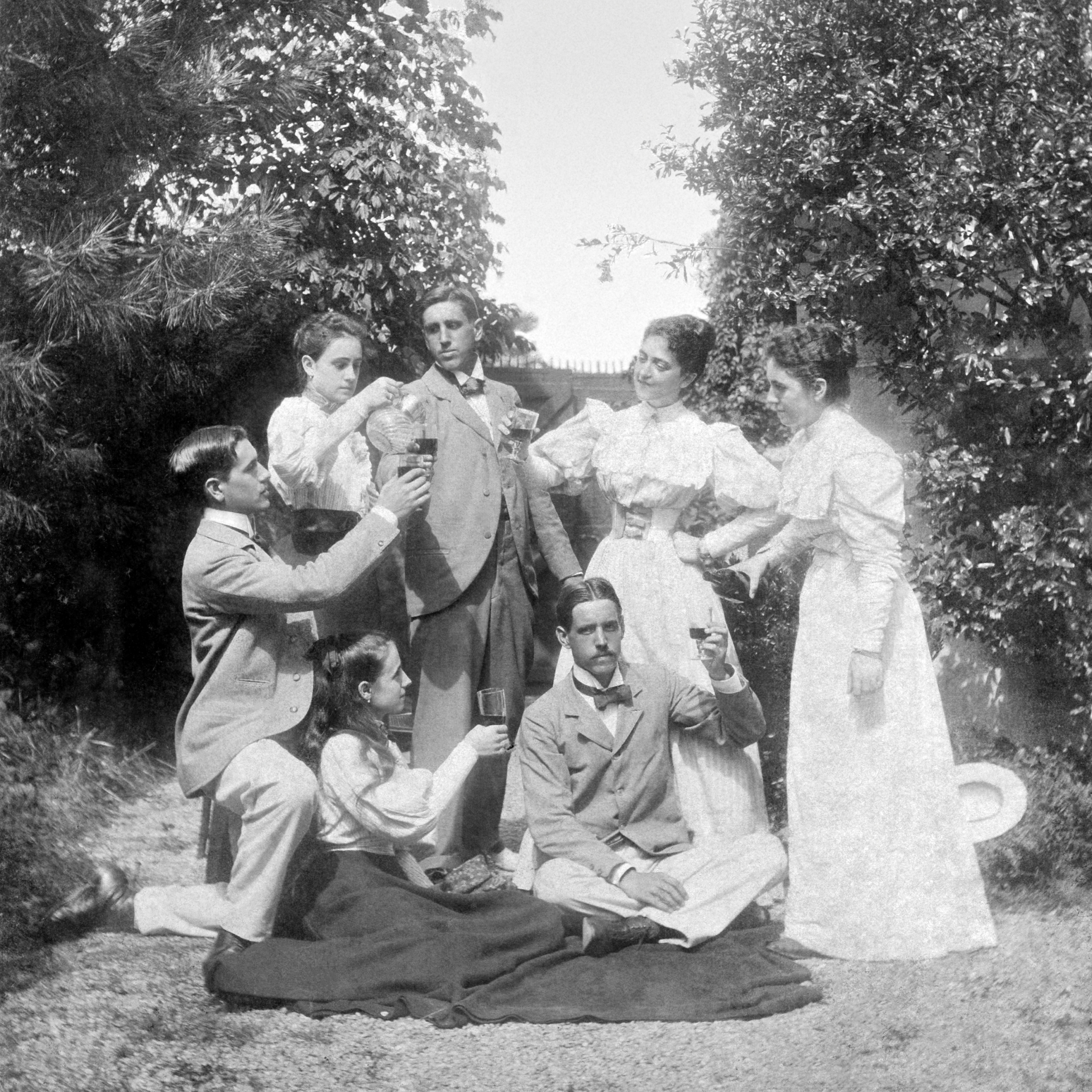 Group photograph of the Olazábal family taken during a picnic in the countryside around Saint-Jean-de-Luz. The photograph includes Mercedes de Olazábal; Ramón de Olazábal; José Joaquín (Tatito) de Olazábal; Tirso de Olazábal; Vicenta de Olazábal (later Countess of Urquijo); Lorenza de Olazábal; and Francesca (Cichetta) Zileri dal Verme degli Obbizi (later Countess Emo Capodilista).